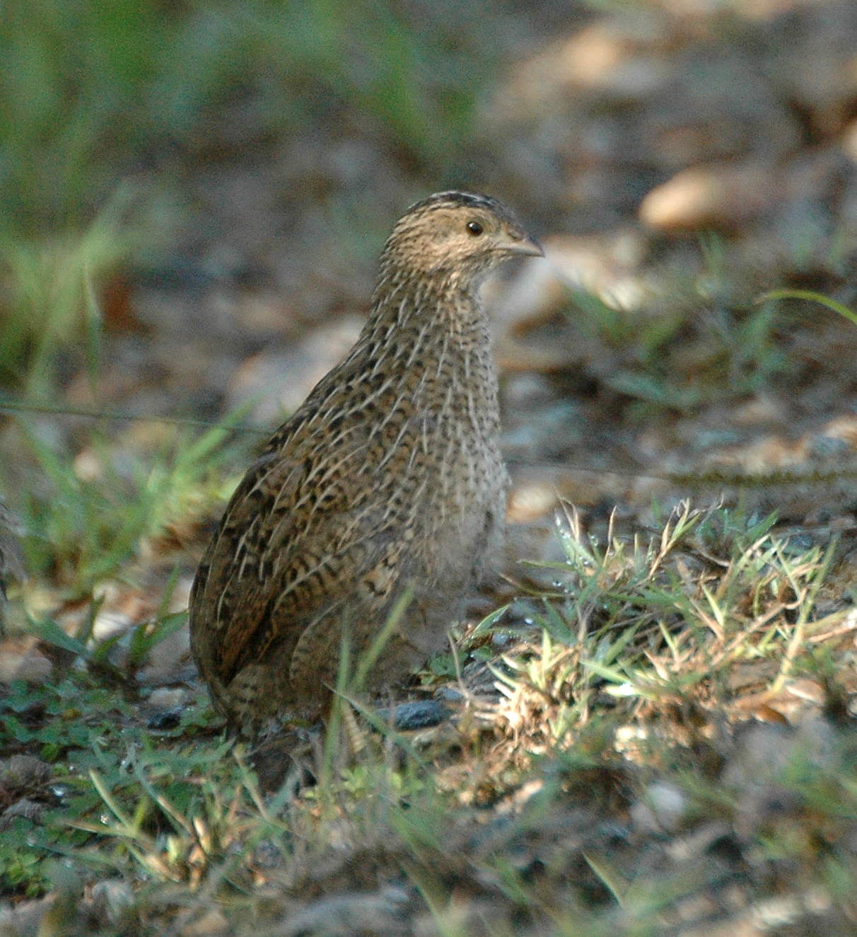 Brown Quail (Coturnix ypsilophora) Dayboro, SE Queensland, Australia